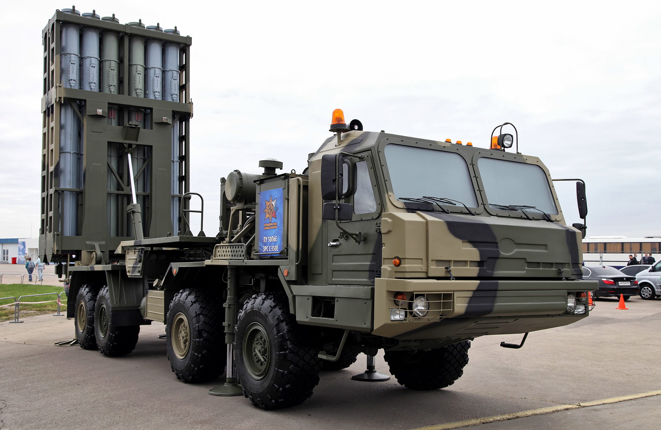 50P6E transporter erector launcher.